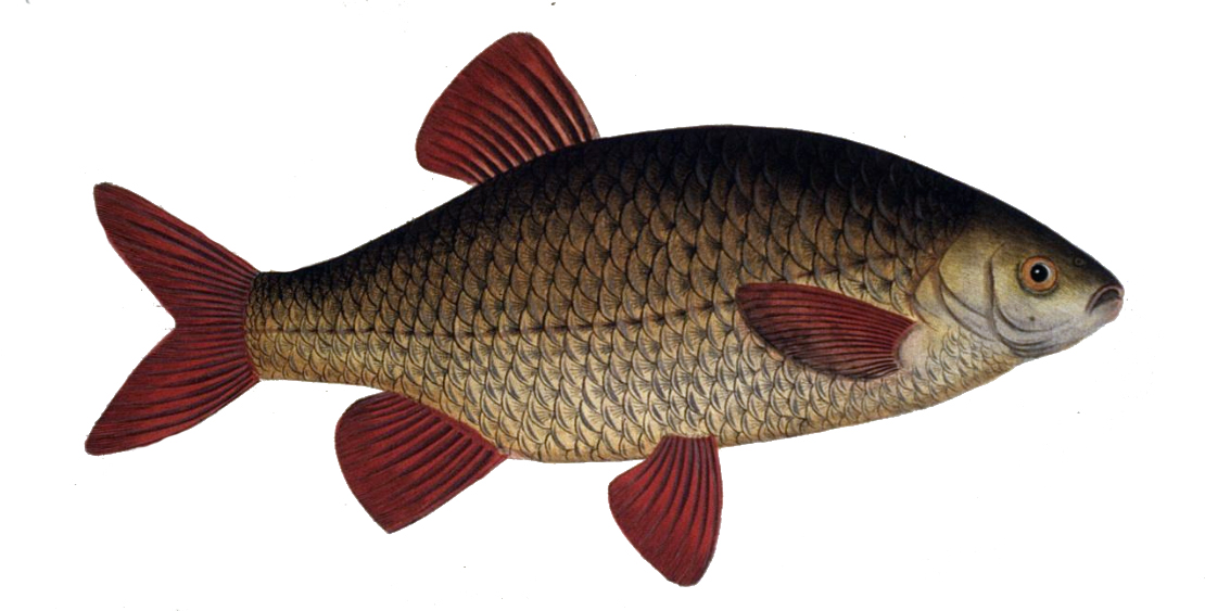 Scardinius erythrophthalmus